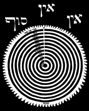 Emanation of Sefirots according to Lurianic Kabbala